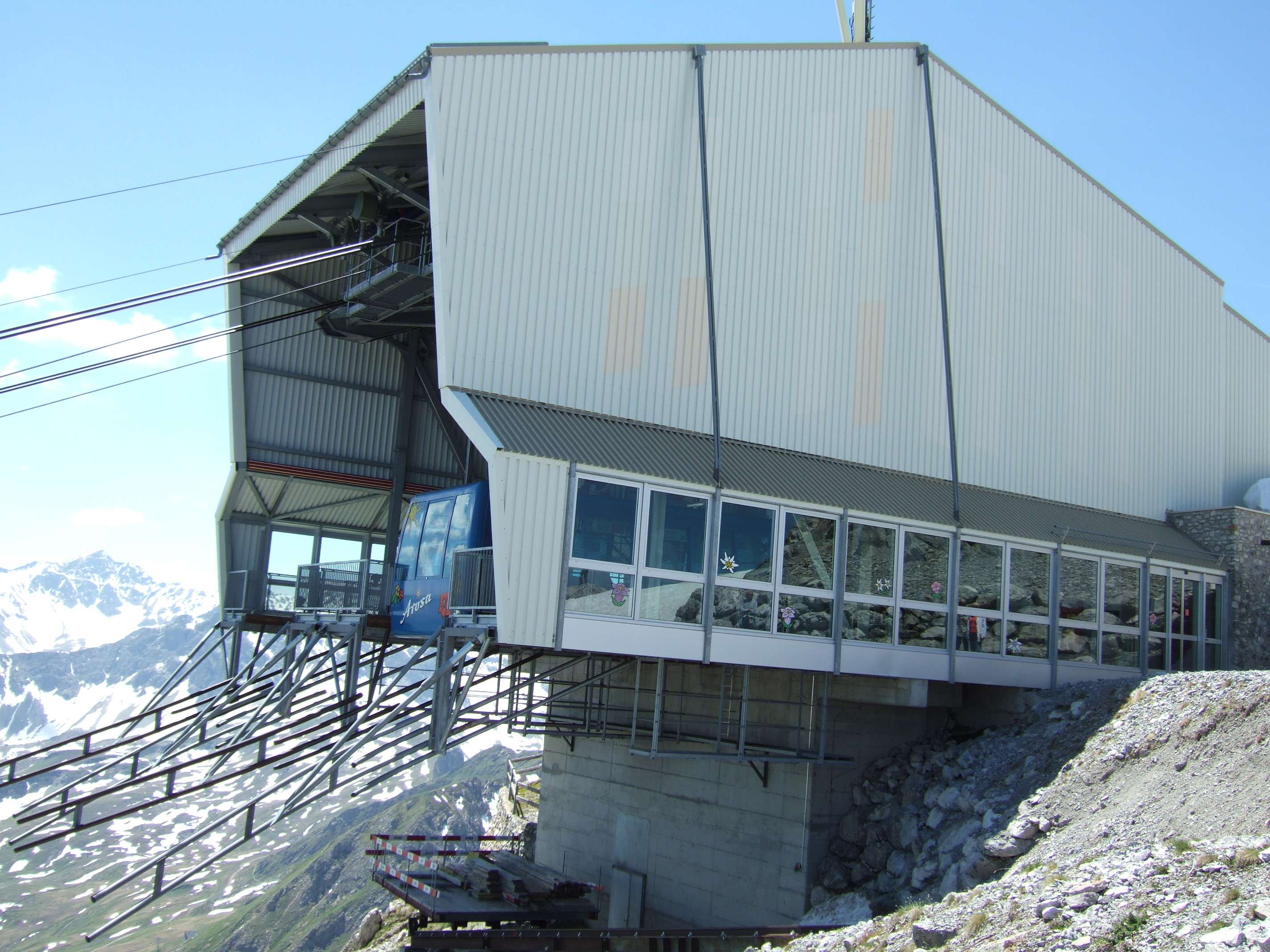 Top Station of the Cable Car up the Arosa Weishorn in Switzerland